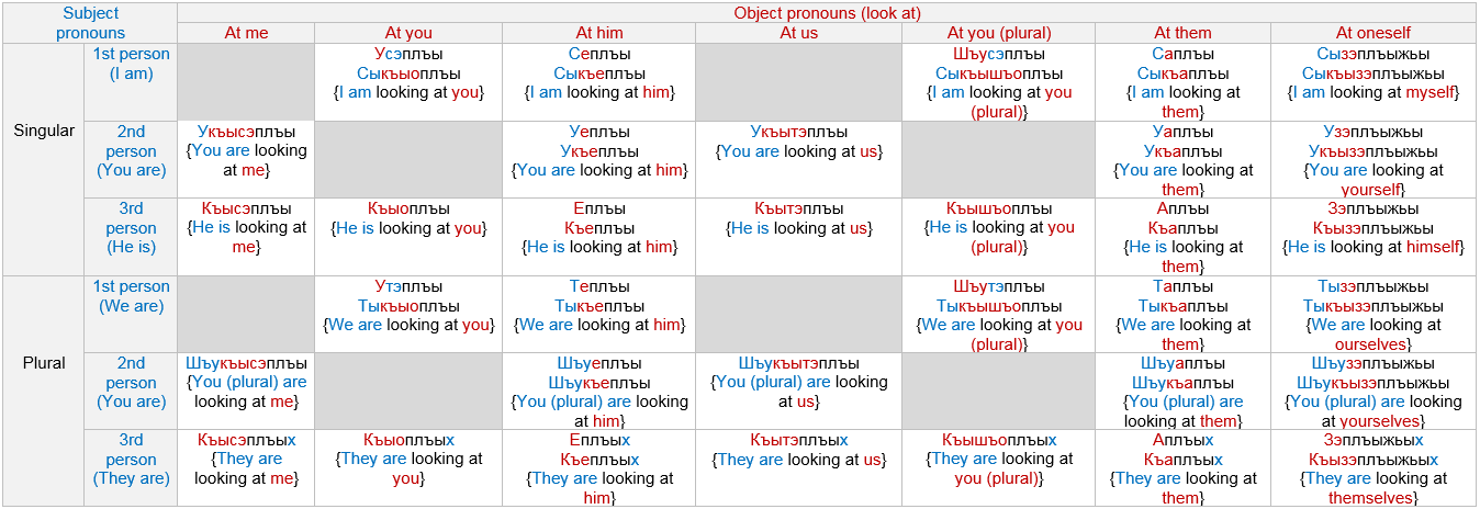 AbsolutiveTransitiveVerbs